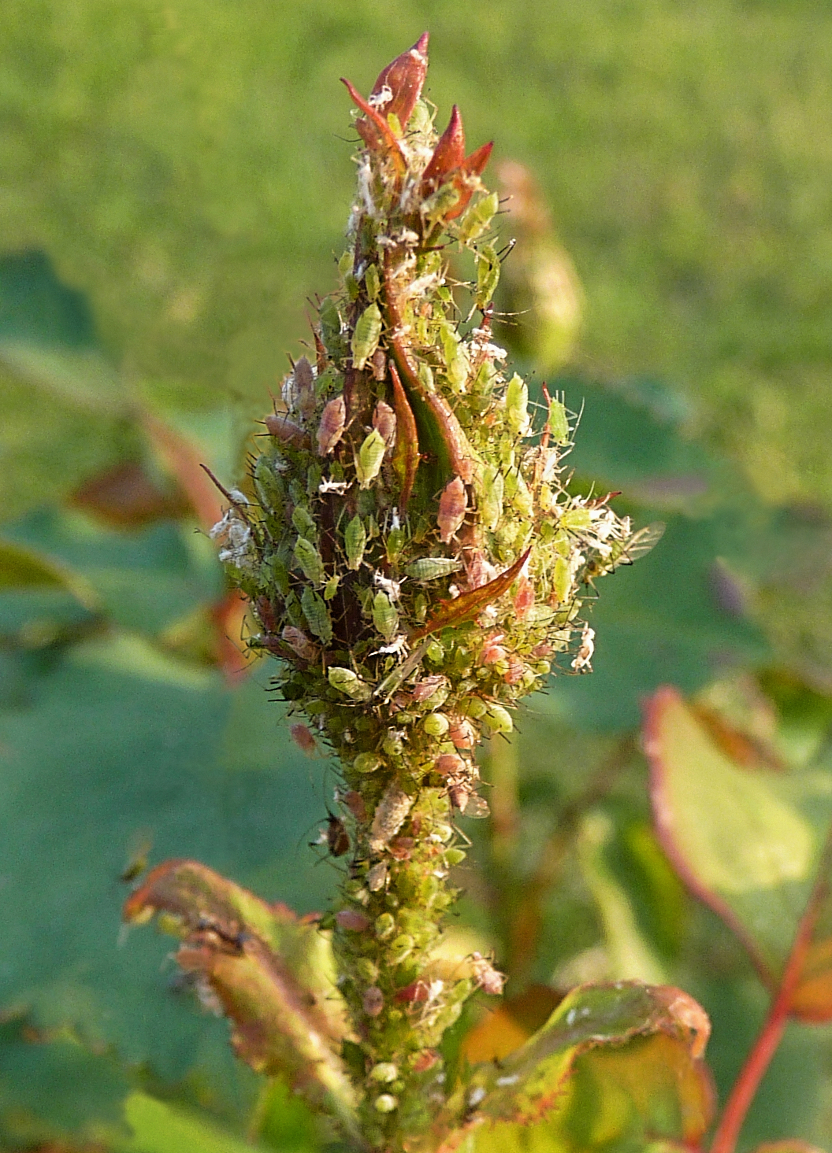 Rosebud attacked by aphids, picture taken in Belgium.